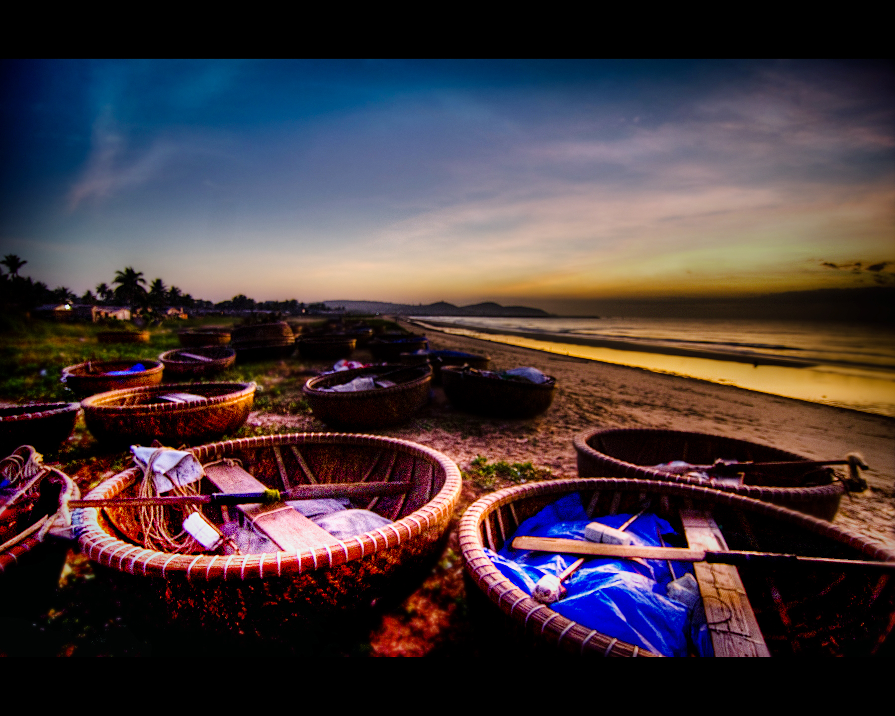 Early morning at the Doi Duong fishing village near Phan Thiet, Vietnam. Nearly every day of the year, men from this village will set out the night before in these small boats laying fishing nets in the sea. Early morning, before sunrise, you can see them come to shore. This morning, however, was right after the Vietnamese new year, so the men were on Holiday and the boats were still on the beach when I walked here during the sunrise.